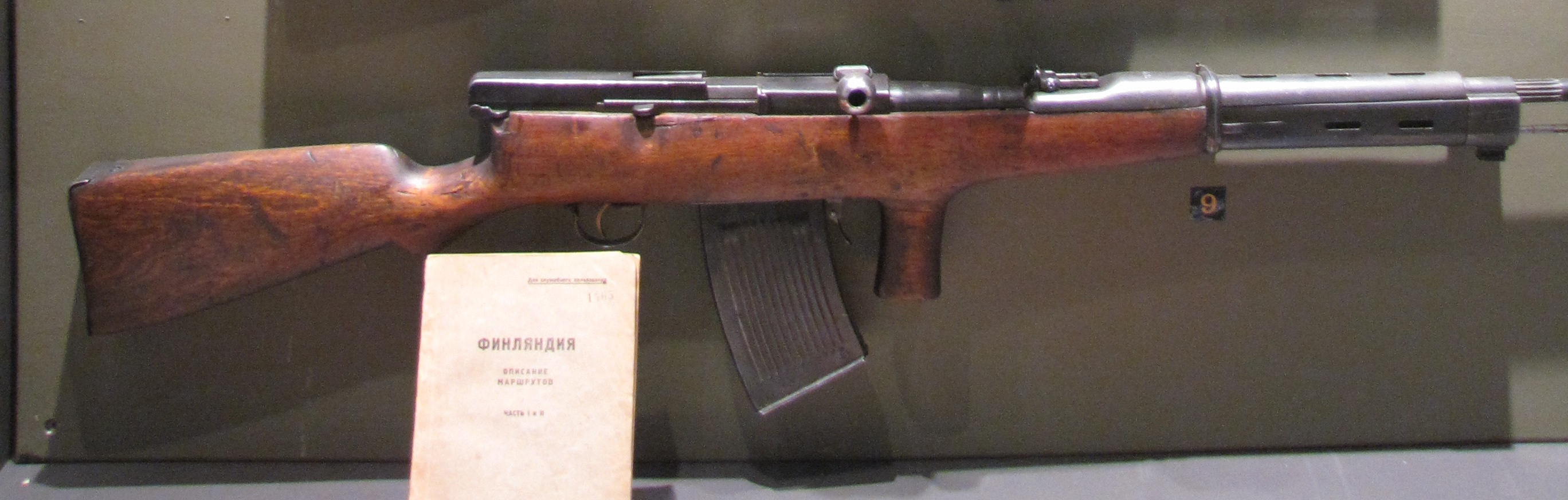 6.5 mm Fedorov Avtomat M/1916 automatic rifle. Cropped from File:Red army pistols and automatic weapons.JPG.